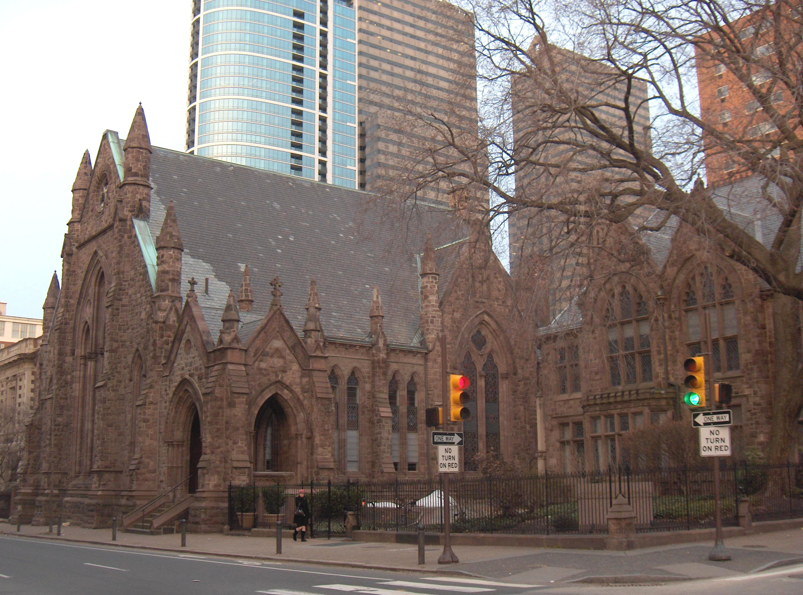 Former Church of the New Jerusalem, 2125 Chestnut St. Philadelphia, Pennsylvania 19103, now offices. Designed 1881 by Theophilus Parsons Chandler.